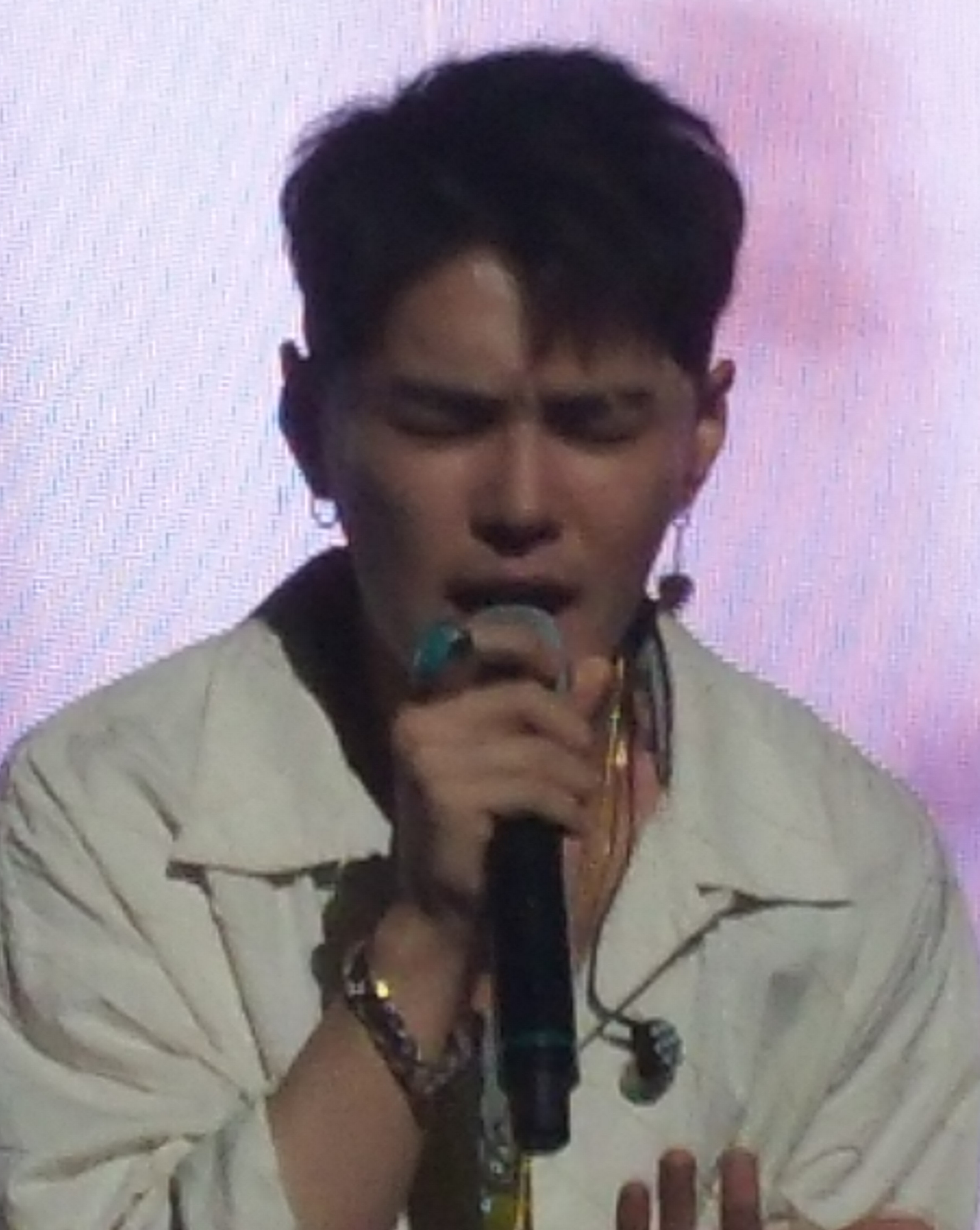 DEAN performing at Monster Concert #5, Yes24 Live Hall 예스24 라이브홀, Gwangjang-dong, Gwangjin-gu, Seoul.